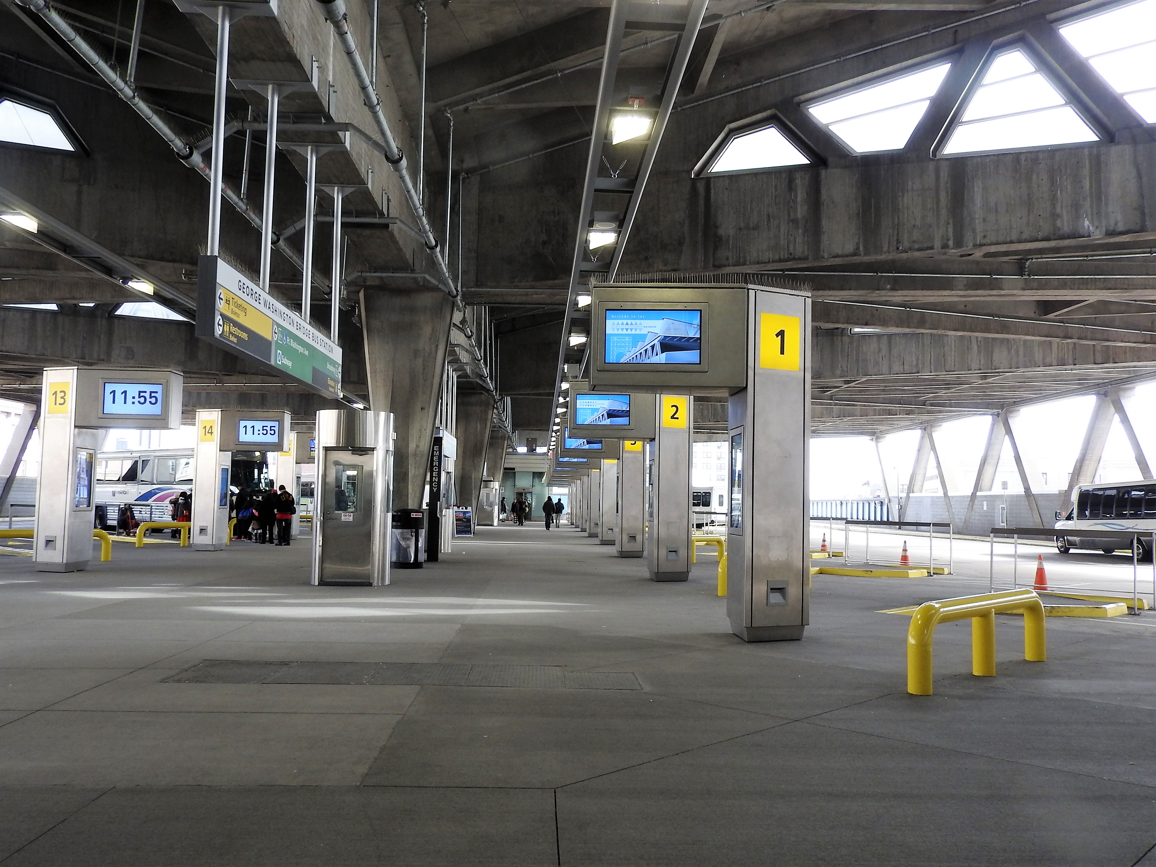 Looking east at platform on a cloudy midday